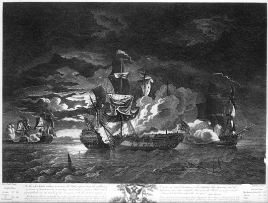 Defence of Captn Pearson in his Majesty's Ship Serapis and the Countess of Scarborough Arm'd Ship Captn Piercy, against Paul Jones's Squadron, 23 Sept 1779